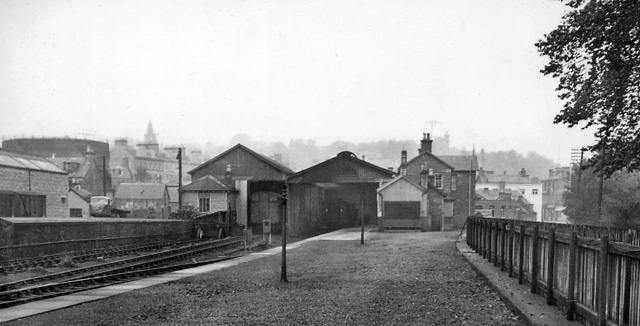 Blairgowrie Station. View NW, to buffer-stops; ex-CR terminus of branch from Coupar Angus. Closed to passengers 10/1/55, goods 6/12/65. It seems to be well-preserved here.